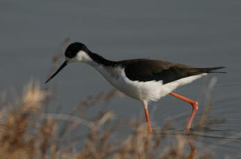 Himantopus mexicanus — Black-necked Stilt. On the Kern River at the Kern River National Wildlife Refuge, in Kern County, California.